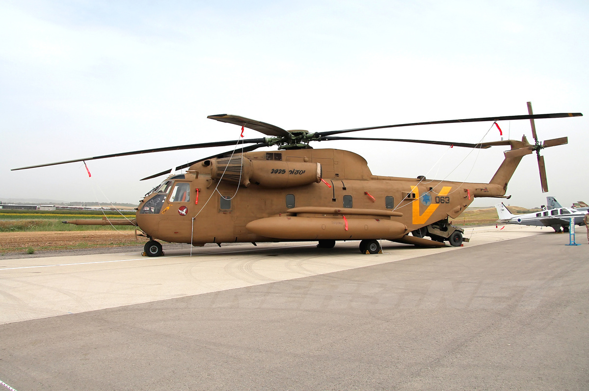 Sikorsky CH-53 Yasur 2025 (S-65C-3). Israel - Air Force. Ground display in Tel Nof air base during 66th Independence day of Israel. Unfortunately it was overcast day.